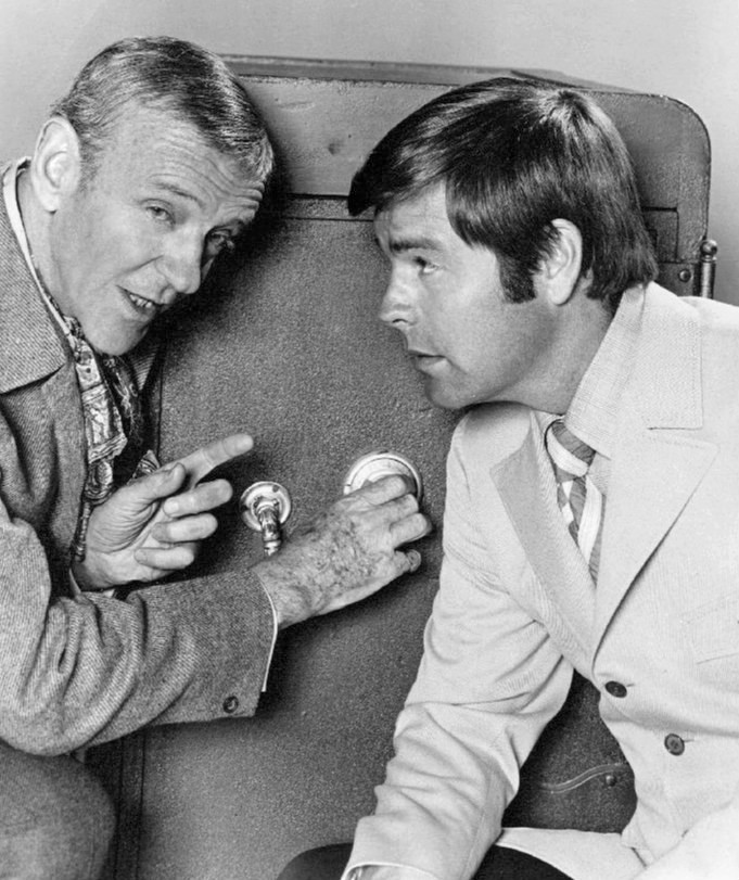 Publicity photo of Fred Astaire and Robert Wagner from It Takes a Thief.